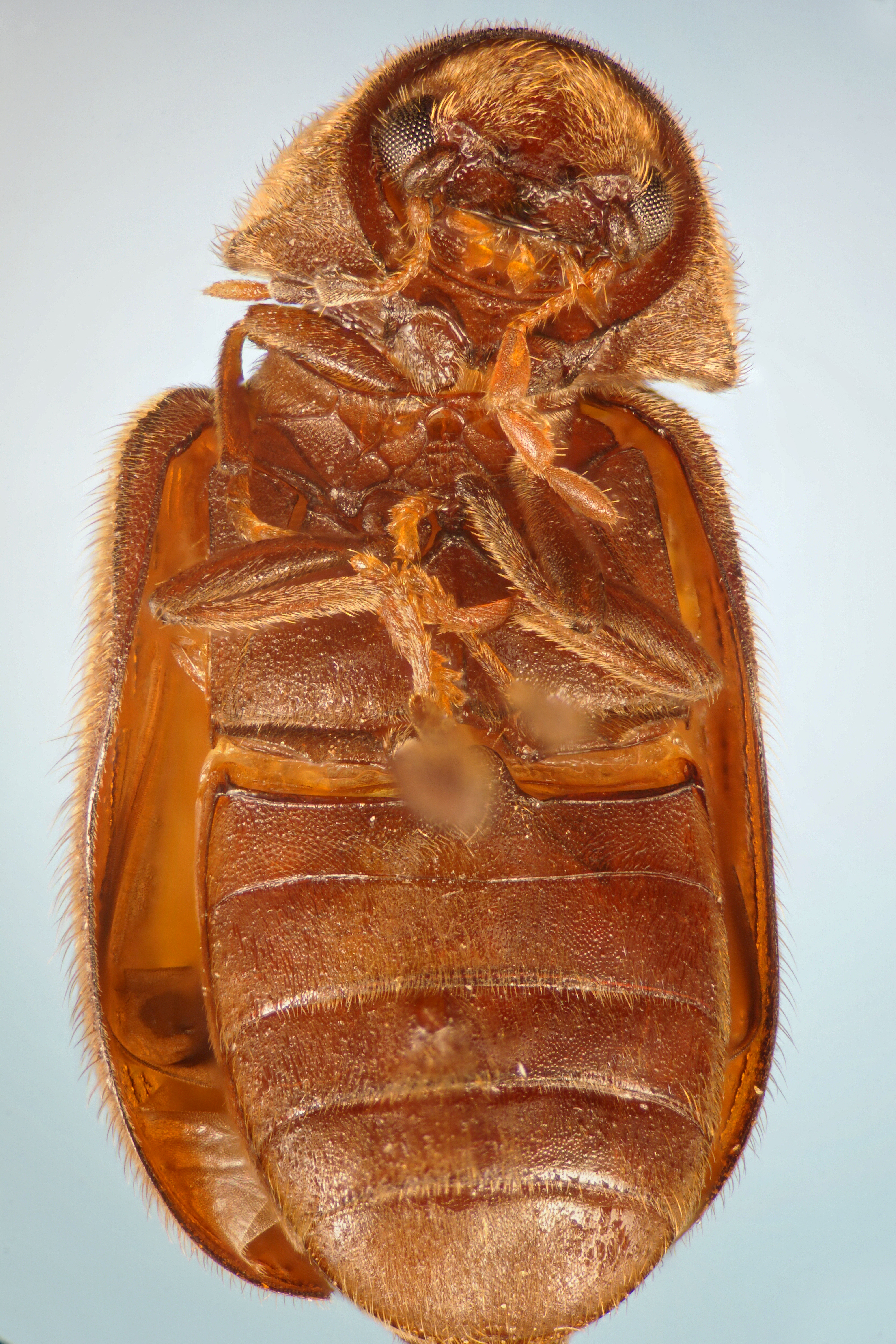 Larder Invaders! Not mine thankfully, but I've been called in as consultant entomologist (!) to identify these wee beasties munching their way through someone's house. 4mm long but I was a bit stumped as to what they were, not Tribolium or a Dermestid of some sort which is what I was expecting. Someone kindly pointed me at the Biscuit Beetle, Stegobium paniceum - antenna with three club-like segments at the tip, (c.f. Lasioderma serricorne - antennae with many serrations, much weaker punctures on the surface of the elytra, eyes easier to see from above, different shape of pronotum).